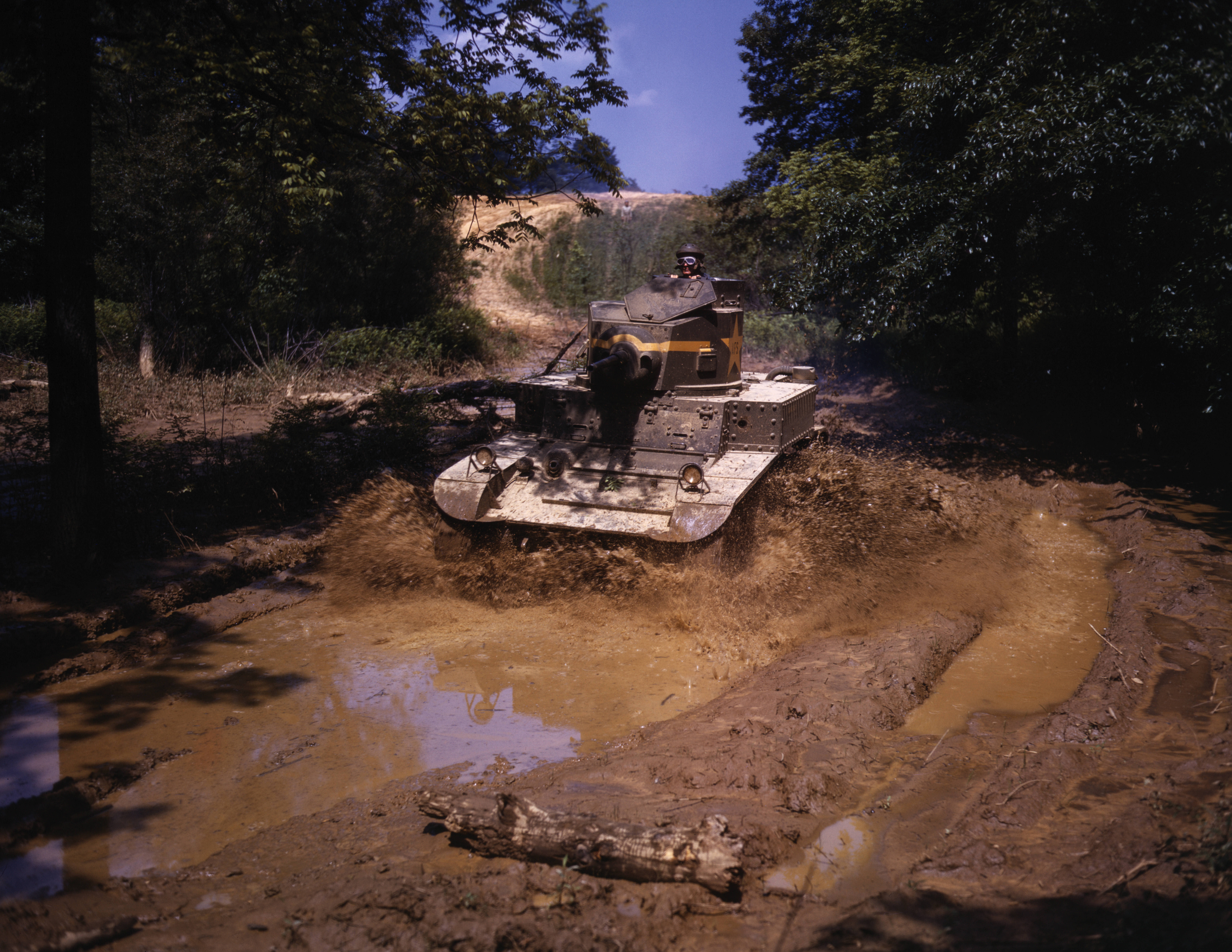 An M3 Stuart light tank going through water obstacle, Ft Knox, Ky.